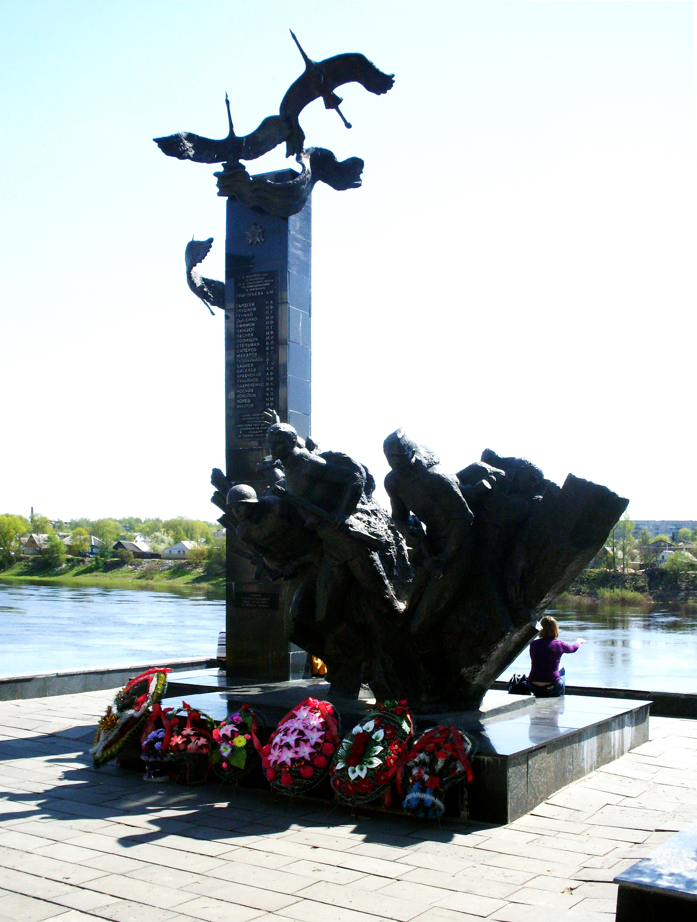 Monument 23 to the soldiers-guards. 1989, Polotsk (Belarus)